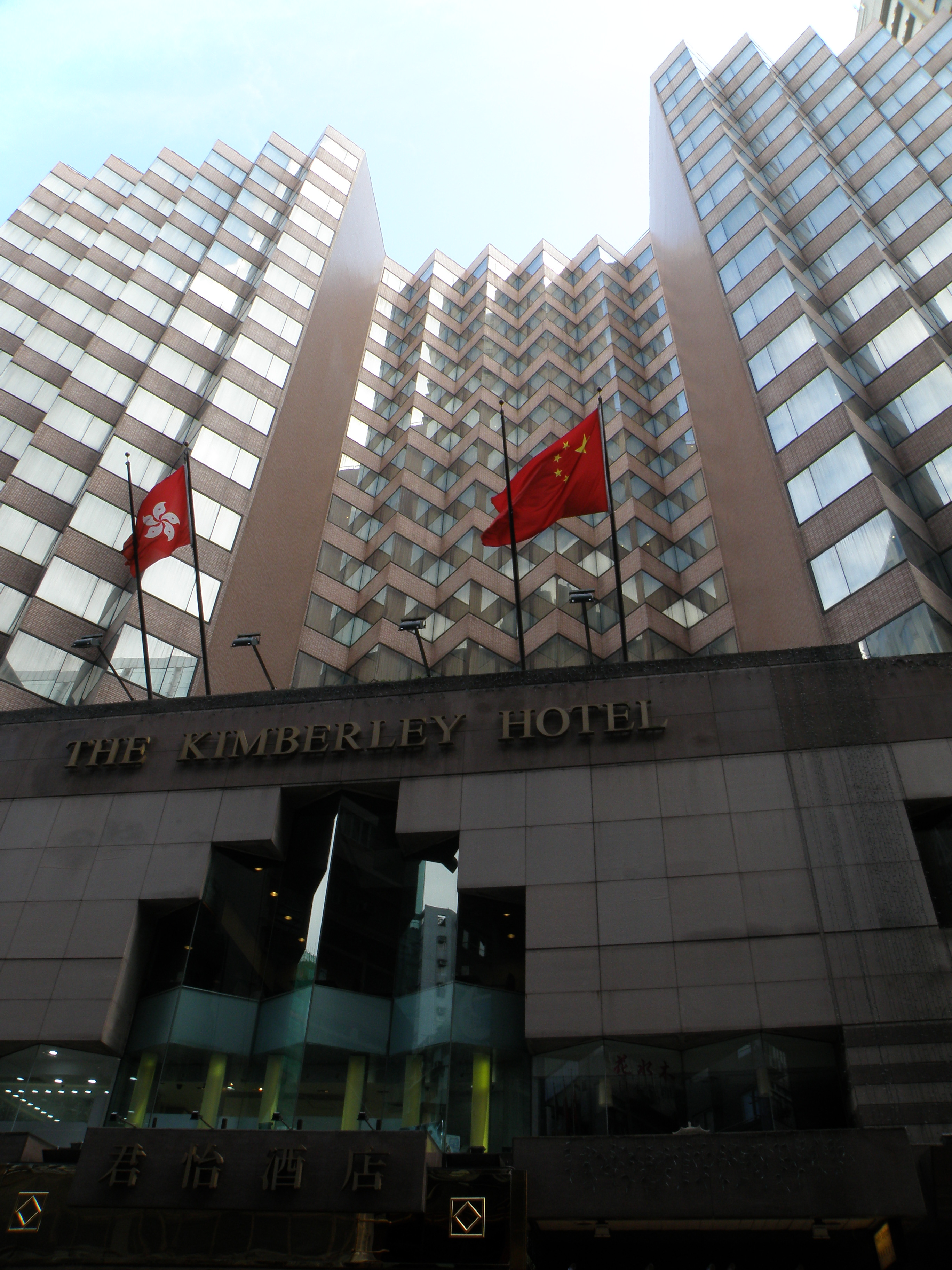 Kimberley Hotel in Tsim Sha Tsui, Hong Kong.